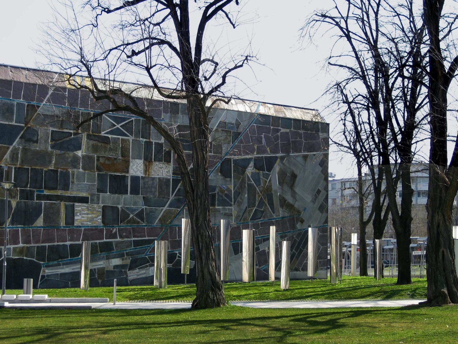 Sculptures in Stuttgart, Karl-Heinz Franke, Edelstahl Saeulenwald, 1979